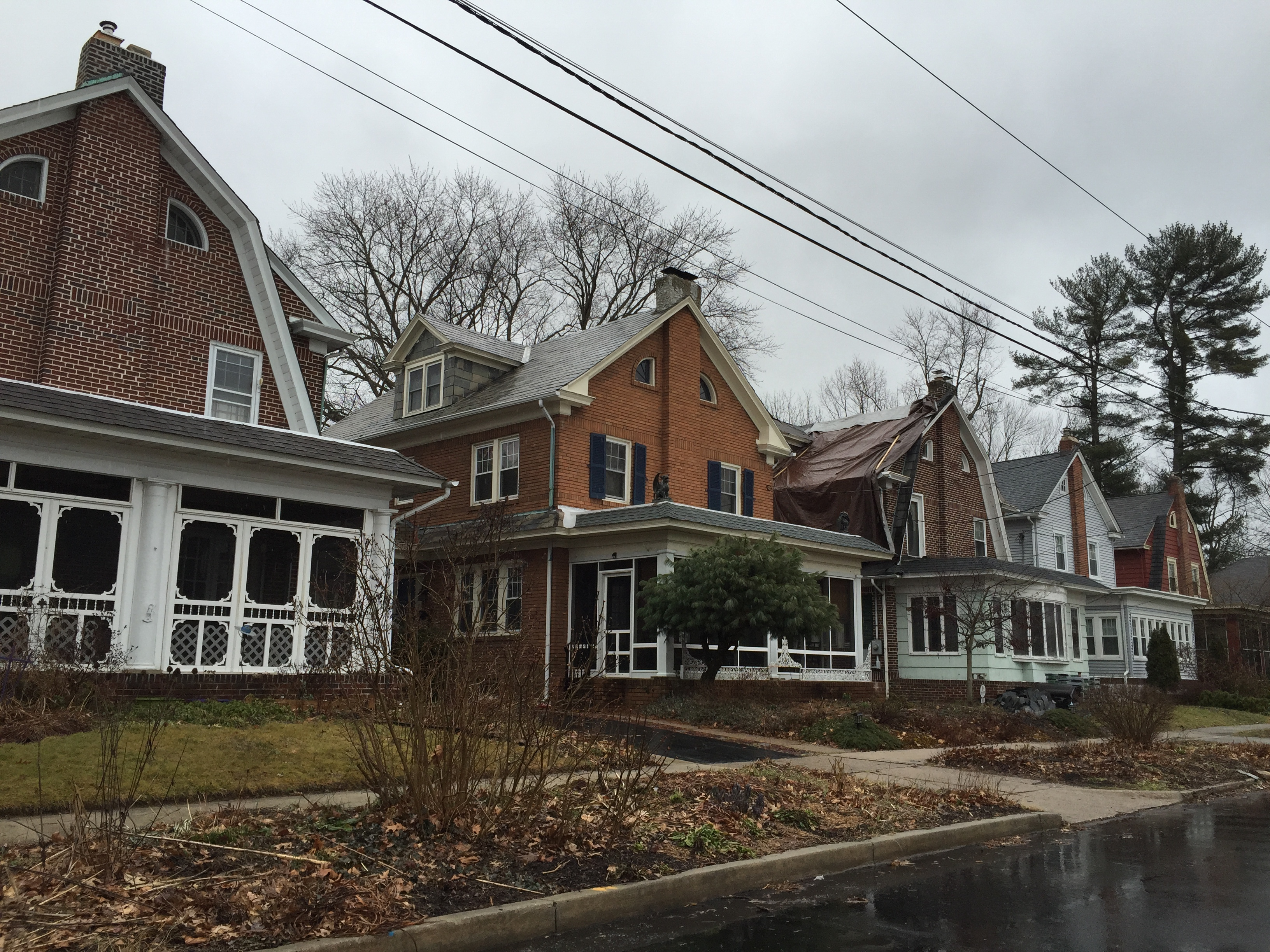 Houses along Riverside Drive in The Island section of Trenton, New Jersey